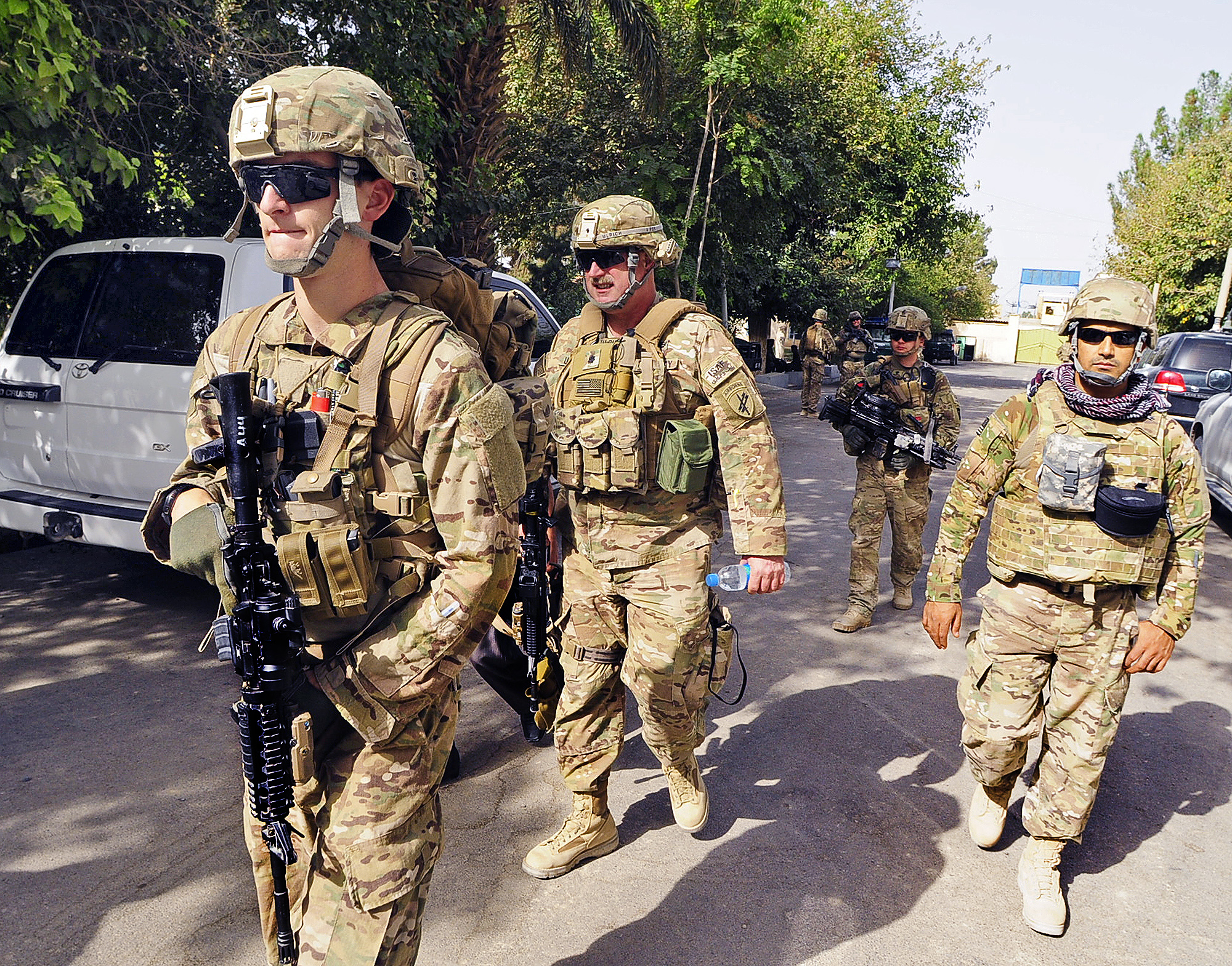 U.S. Army Cpl. Jacob Bath, left, provides security as leaders gather for a meeting in Farah City in Afghanistan's Farah province, Aug. 27, 2012. Bath is assigned to Provincial Reconstruction Team Farah. U.S. Army Lt. Col. Anthony Ulrich, center, attended the meeting. U.S. Navy photo by Lt. Benjamin Addison